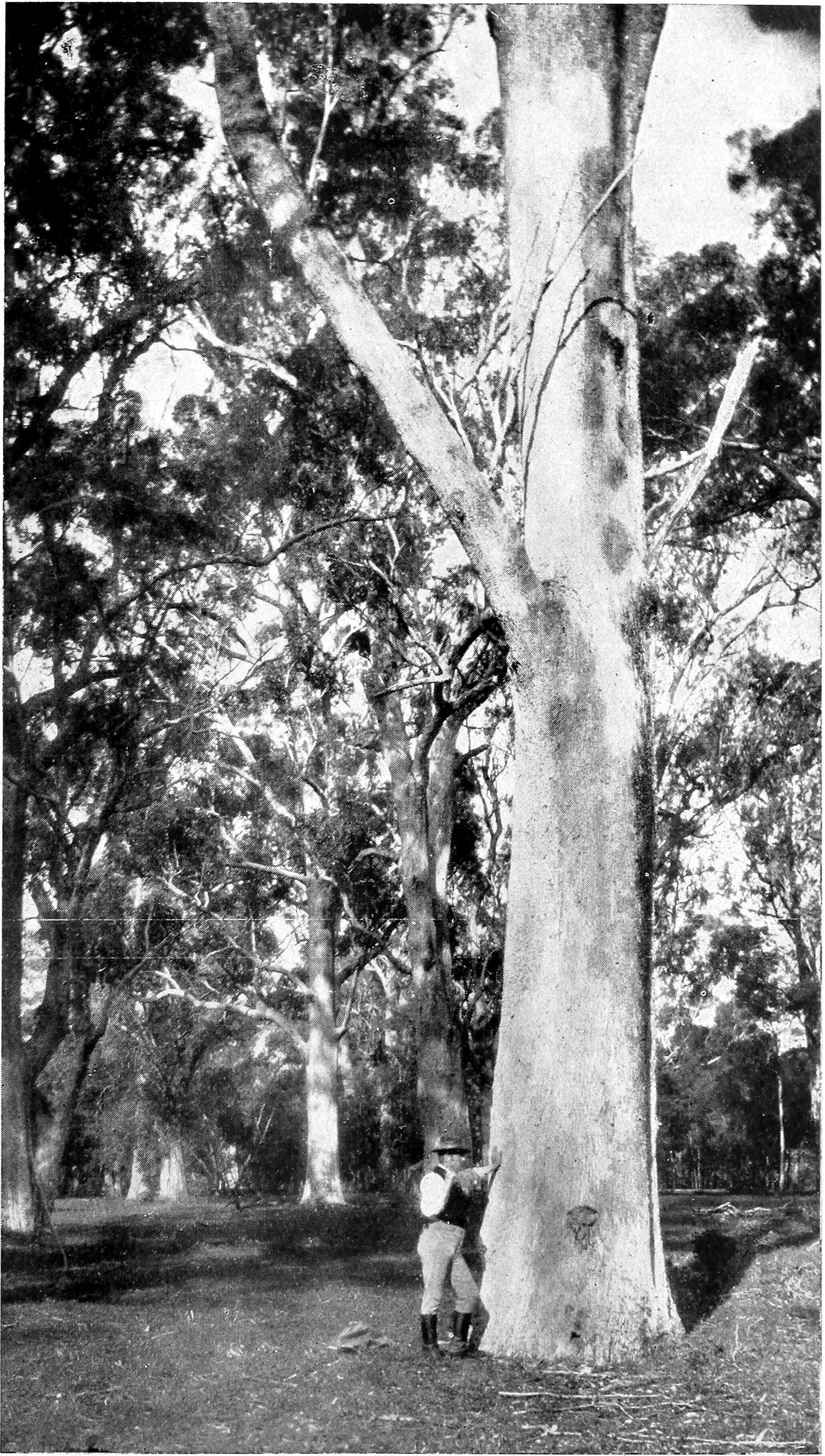 photograph of gentleman with a tree